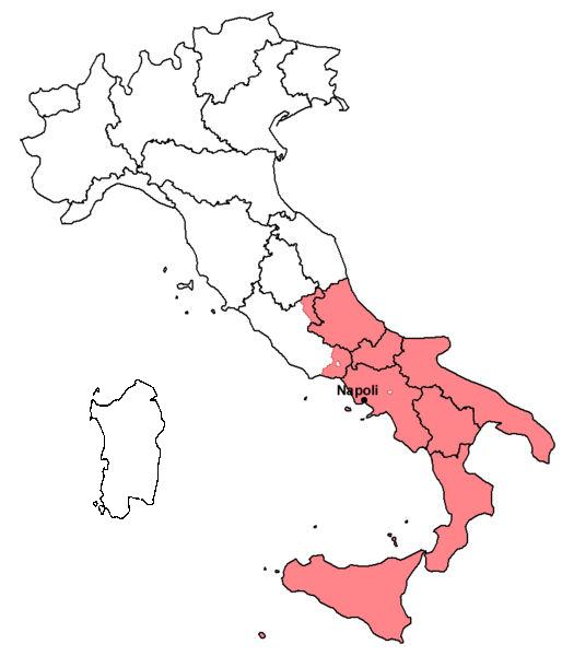 Kingdom of Two Sicilies (1815)